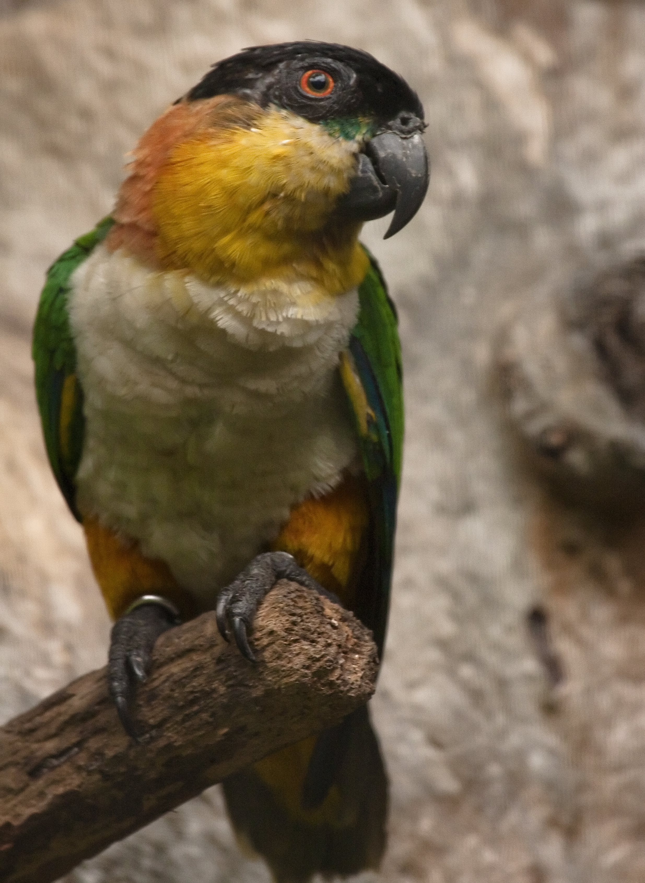 Black-headed Parrot (also known as the Black-headed Caique and Black-capped Parrot) at Jurong Bird Park, Singapore.